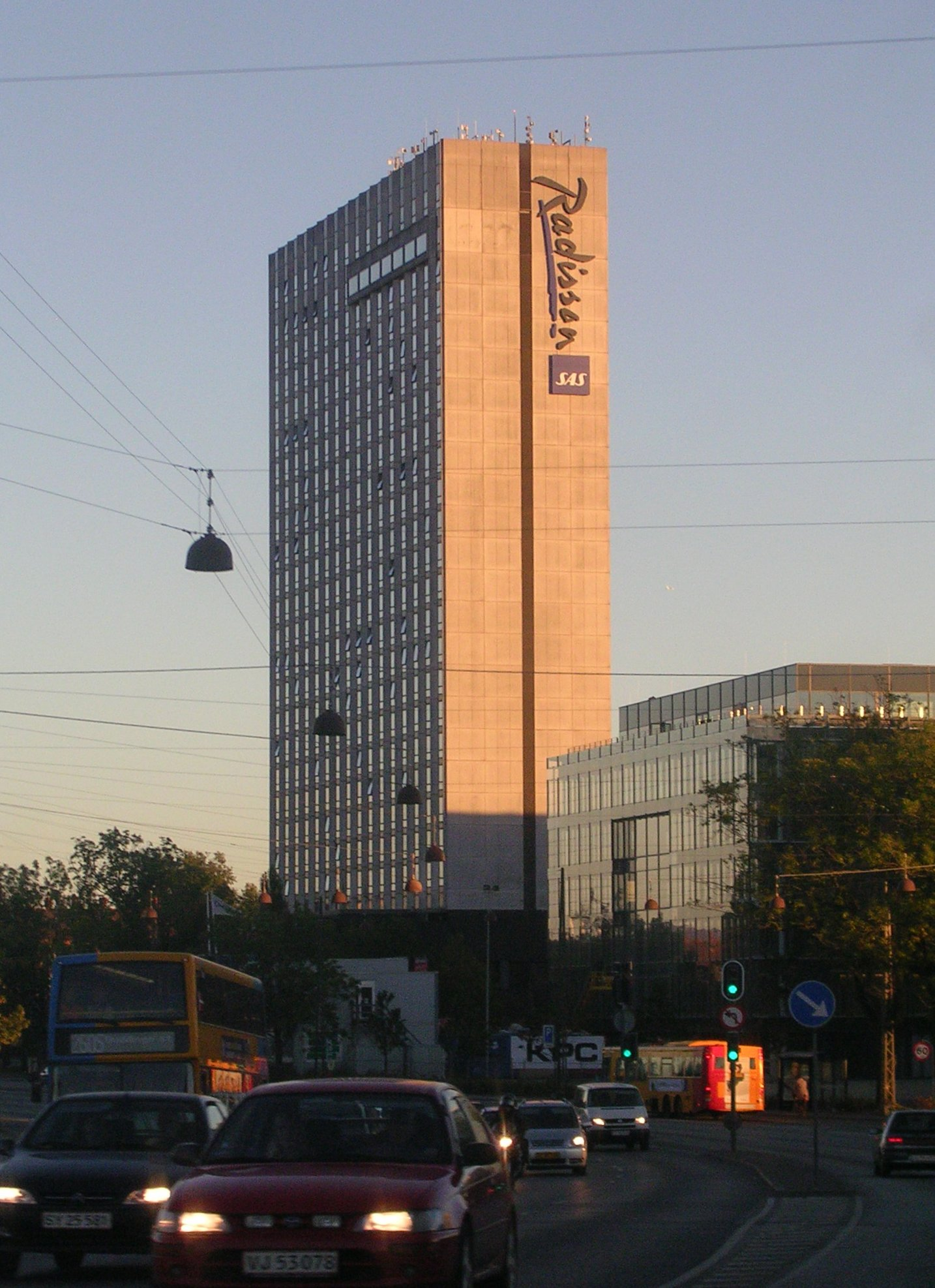 Radisson SAS Scandinavia Hotel, Copenhagen